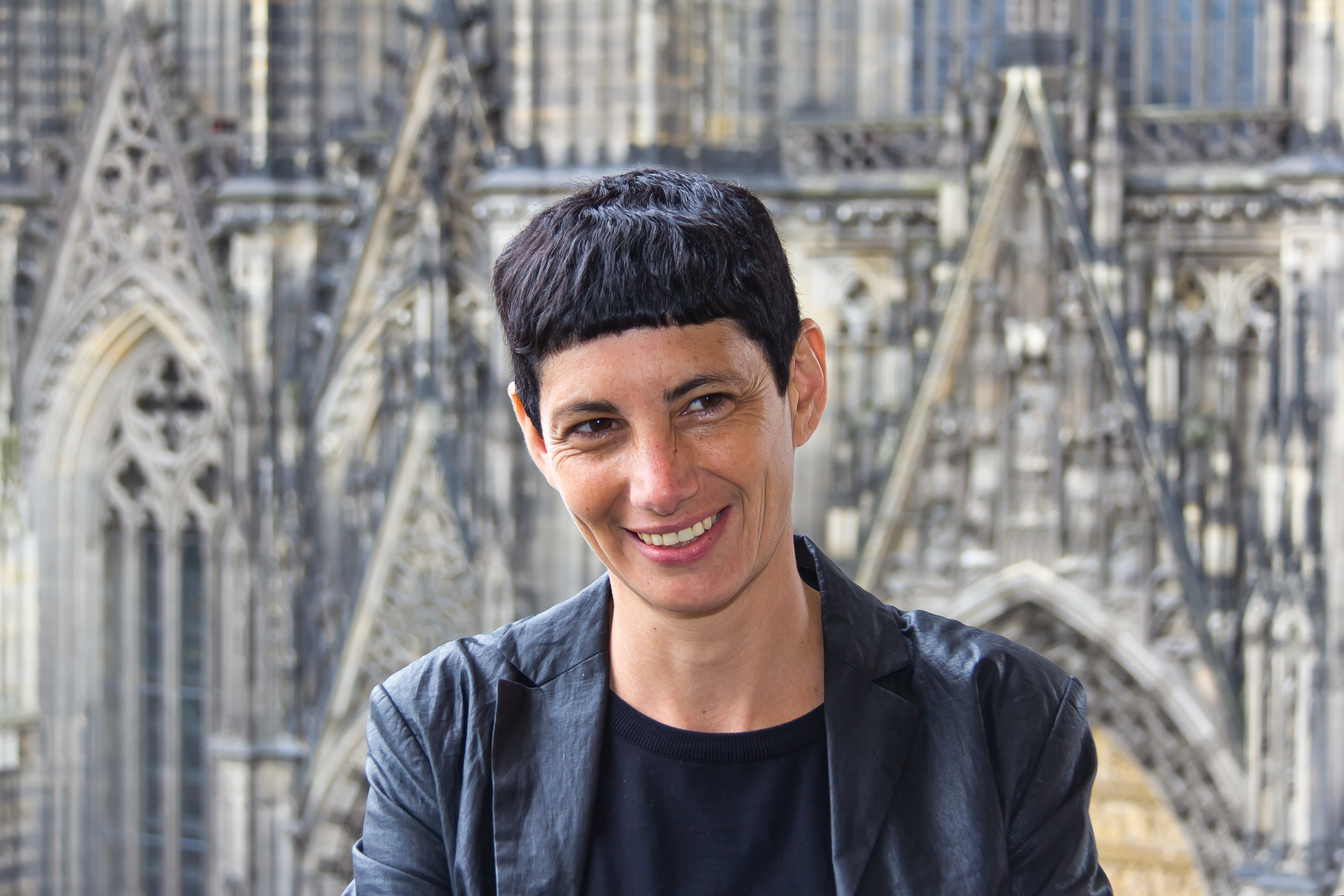 Press conference in Cologne with Yael Bartana for her performce „Zwei Minuten Stillstand“.